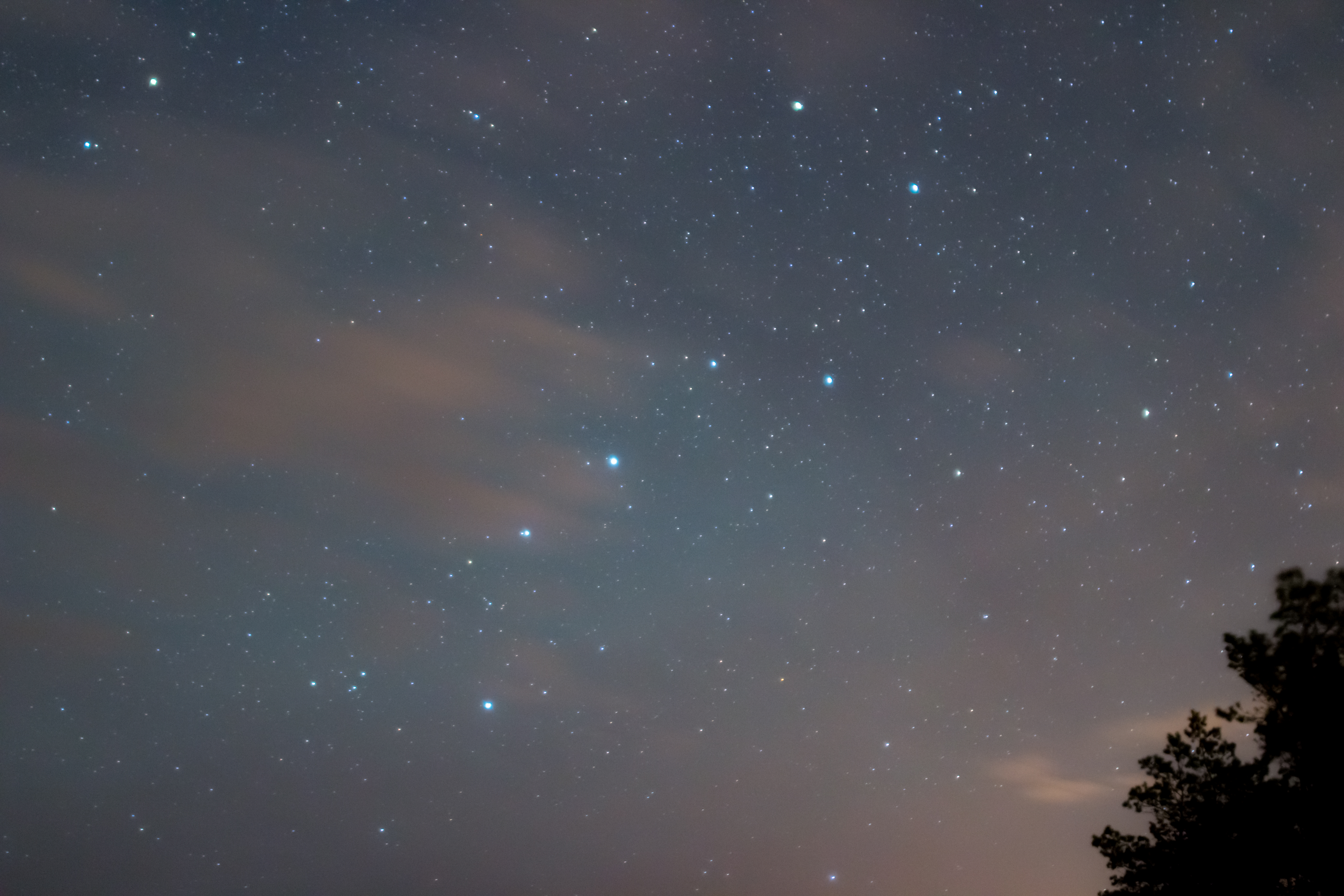 An amateur photo of Ursa Major. Taken with Canon APS-C DSLR, focal length 24mm, aperture f/1.4, exposure 20s. Location: Łazy, Western Pomerania, Poland. Orange clouds are due to light pollution of a nearby city. Irregular shape of stars is due to chromatic aberration of a lens, visible mostly at large apertures. Different colours of stars are associated with their temperature and age. Blue stars tend to be younger and hotter. Red stars tend to be older and colder.